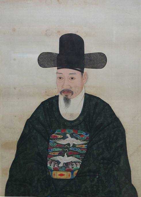 Portrait of Kim Woomyung, the politicians and Confucianist of the mid Joseon Dynasty. This piece is Korea and held by National Chuncheon Museum of Korea. Seoul.